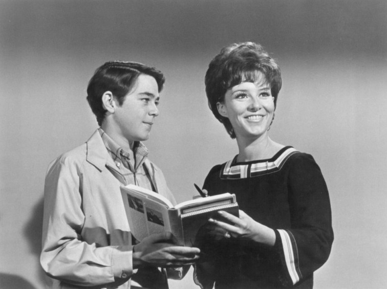 Publicity photo of American actors, Barry Williams and Gigi Perreau promoting the September 11, 1970 episode of the ABC comedy series The Brady Bunch entitled "The Undergraduate".